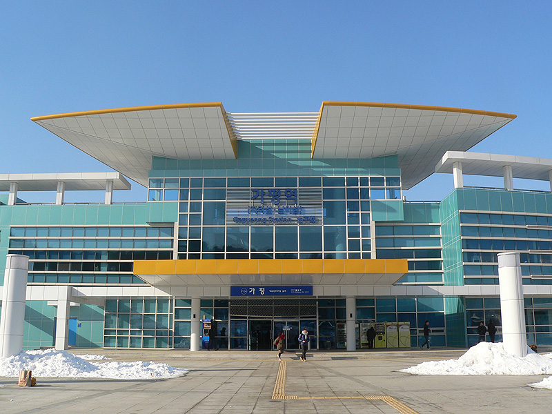 KORAIL Gapyeong Station